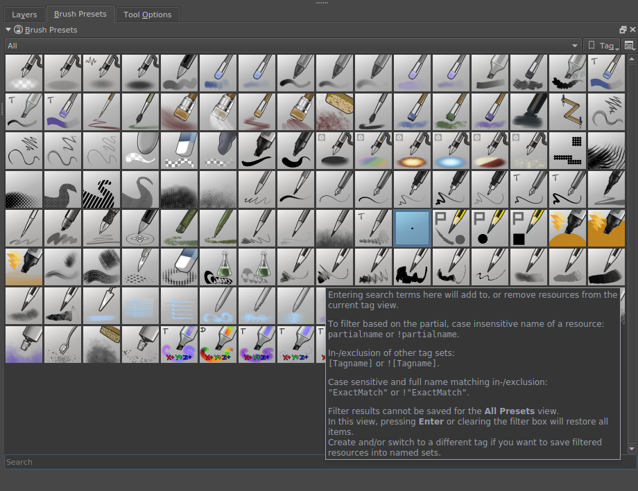 Krita's stock brush presets, as seen in version 4.0